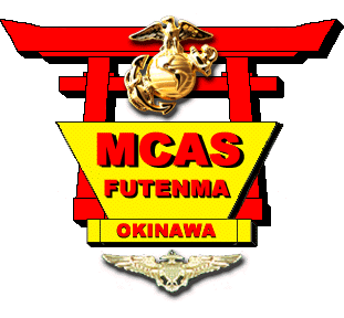 Logo of Marine Air Station (MCAS) Futenma, USMC; from official website at (archived site) Transferred from : Original uploader was